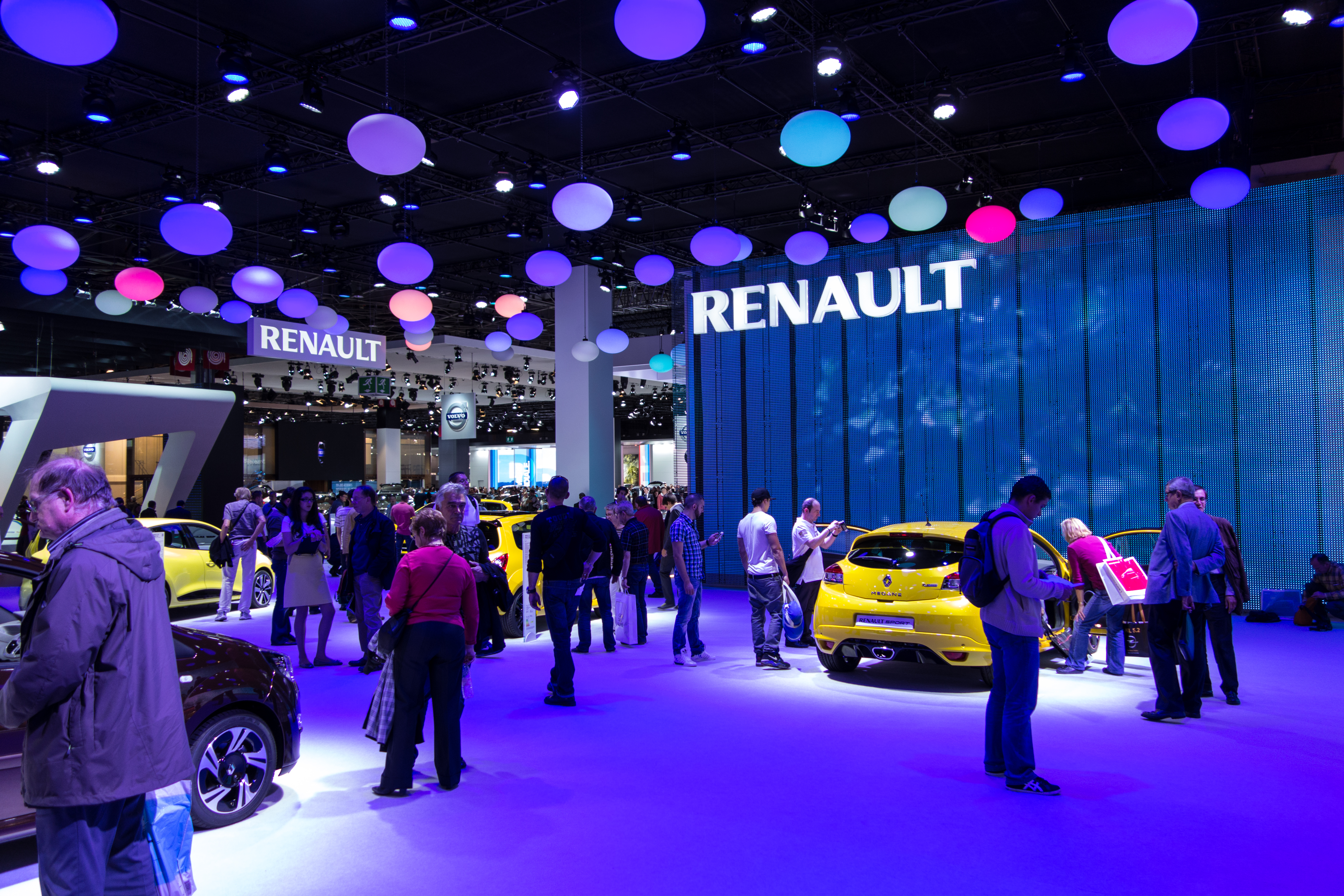 Mondial De L'automobile Paris 2012 | Paris Motor Show 2012